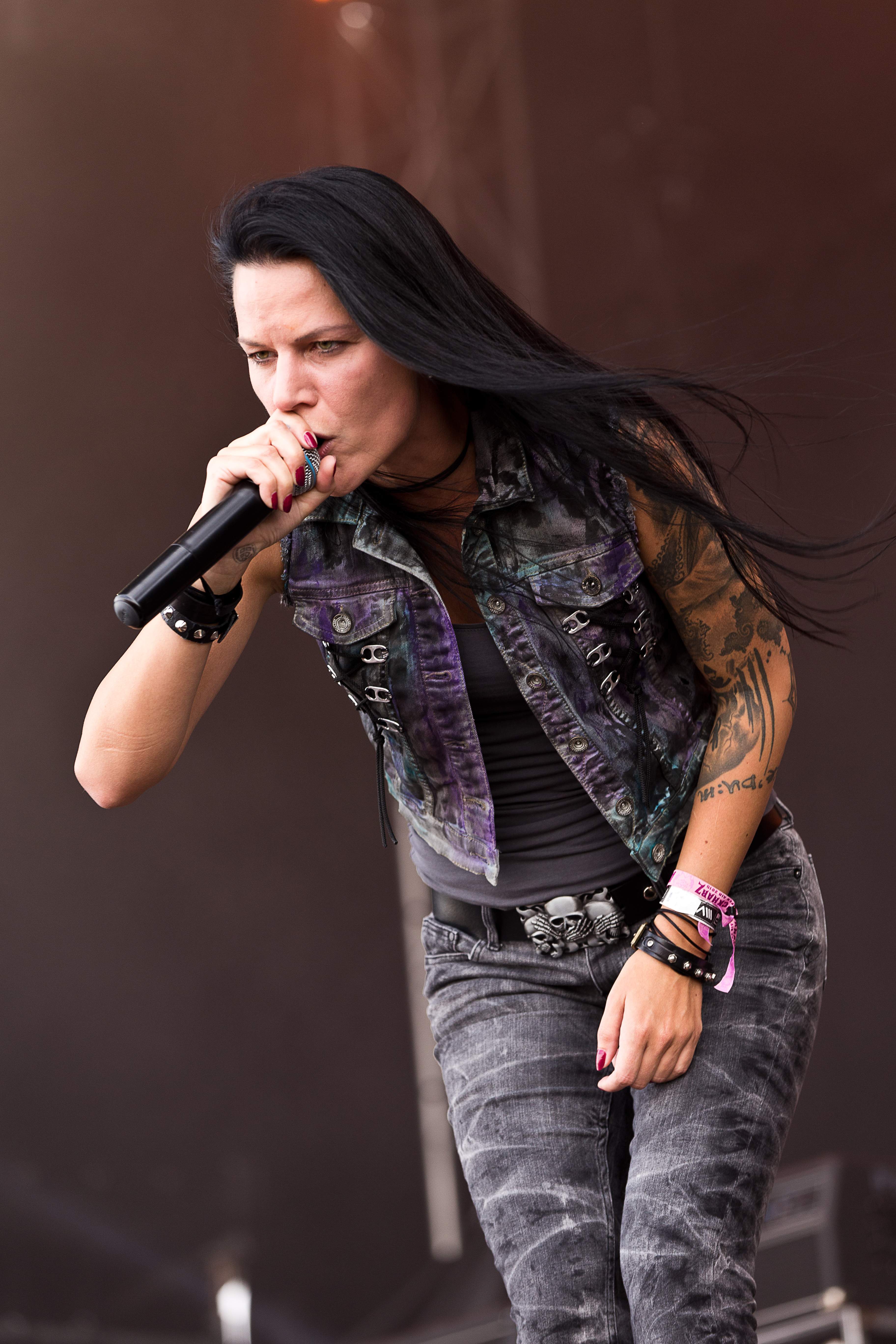 The German thrash metal band Cripper at the Rockharz Open Air 2015 in Ballenstedt/Germany.